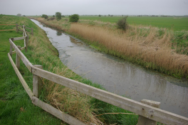 Soak Dike, Skeffling, East Riding of Yorkshire, England.The bank on the left protects the flat farmland between the Humber and Skeffling village; the Soak Dike is part of the drainage system.